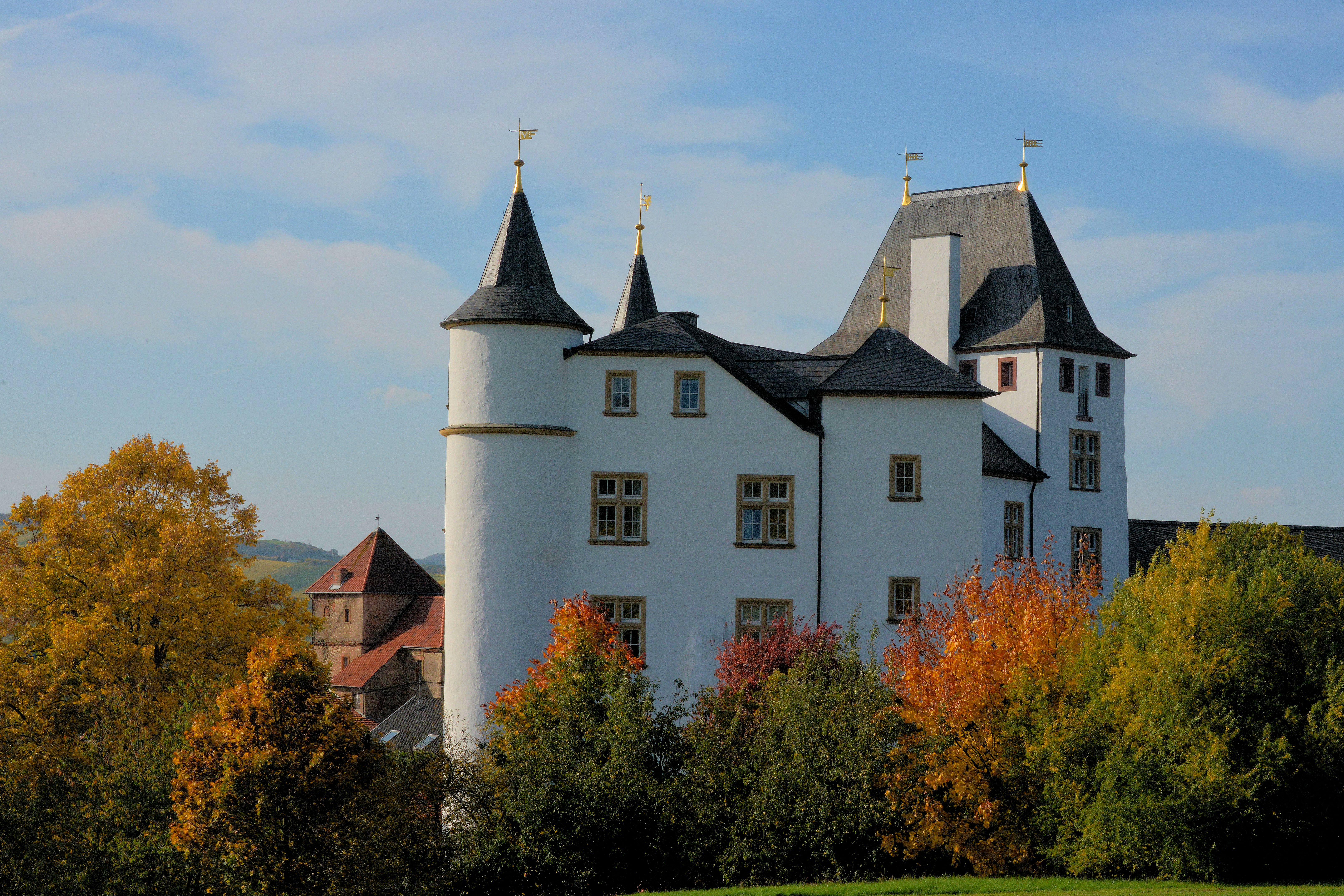 The castle “Schloss Berg” is a small Renaissance castle on the Obermosel in Germany. It is located on the outskirts of Nennig (community of Perl), in the immediate vicinity of the French and Luxembourg borders, not far from Schengen (Luxembourg) where the historic European Schengen Agreement was signed and ratified on 14 June 1985.